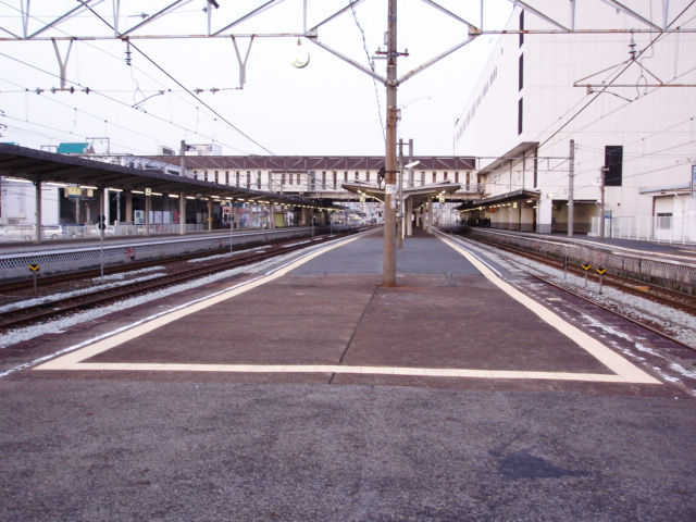 West Japan Railway Kurashiki Station Platform 西日本旅客鉄道 倉敷駅 駅ホーム